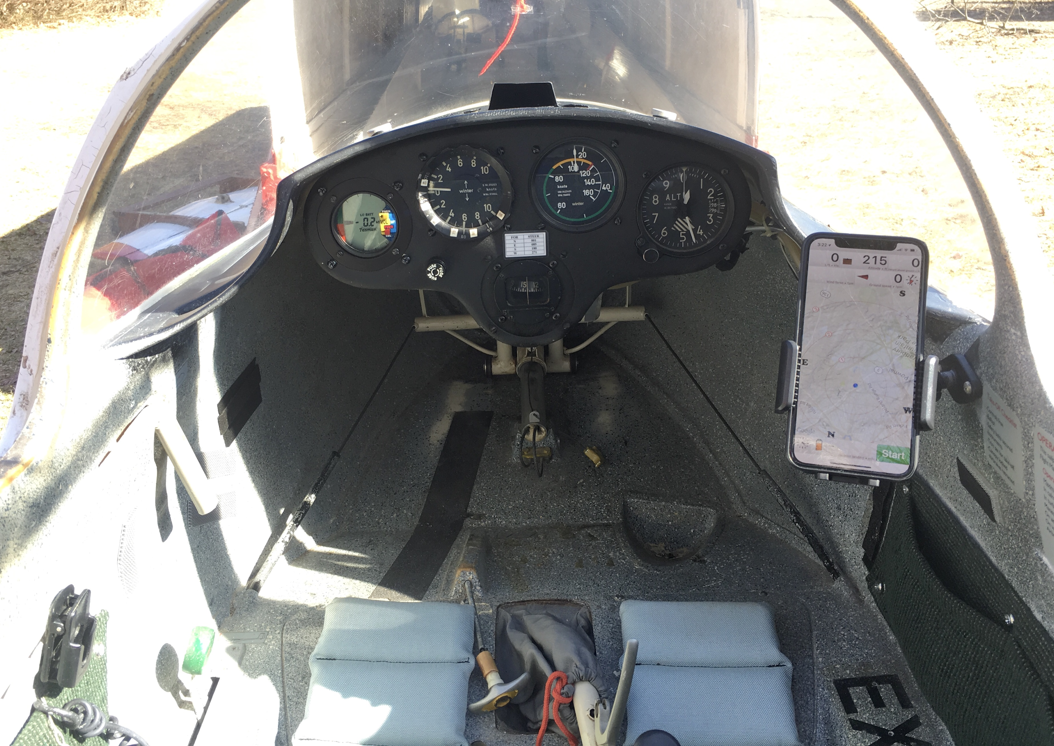 012 AC4-B instrument panel